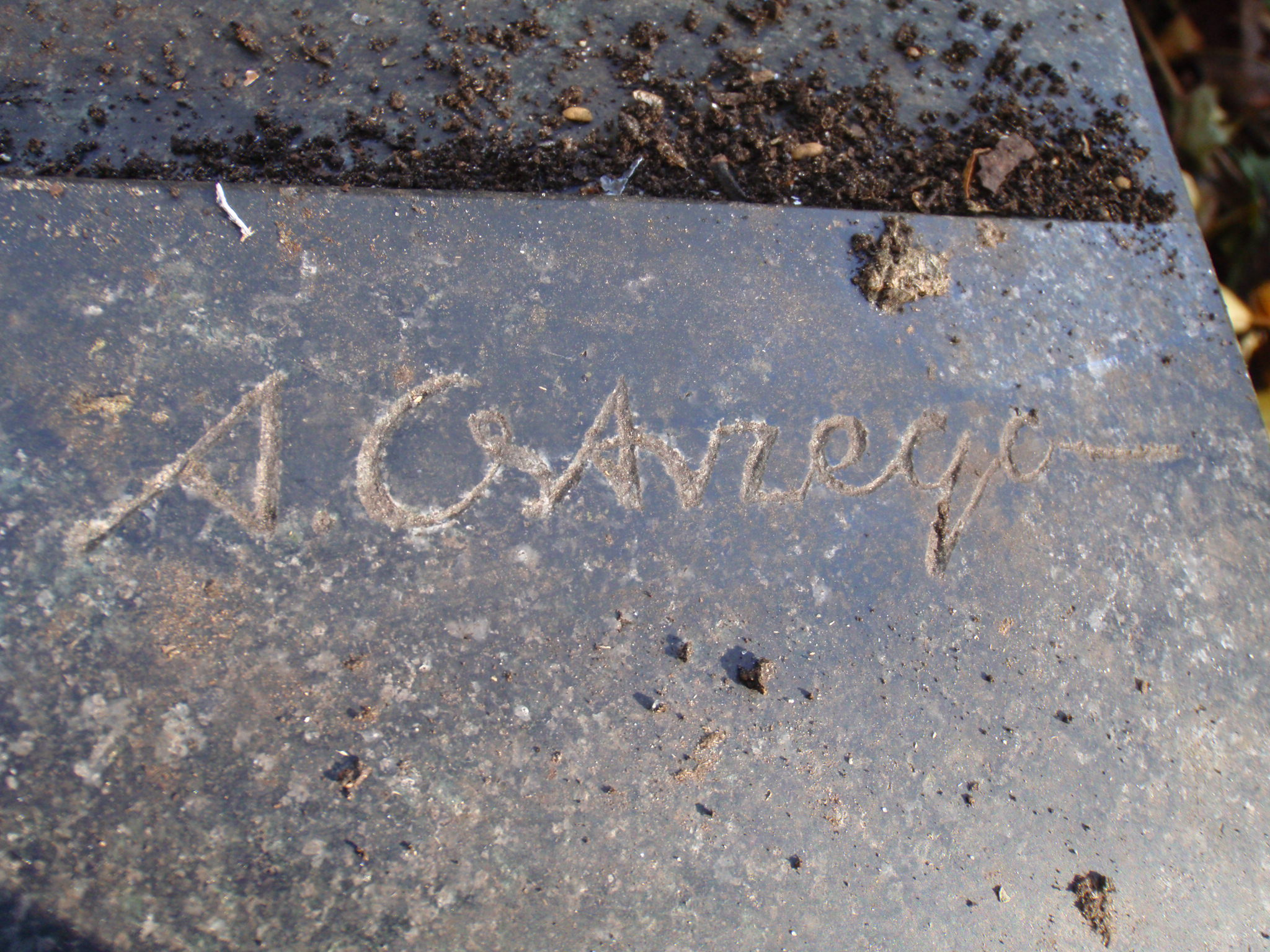 Signature of Abraham Ostrzega at tombstone of Róża Orzech